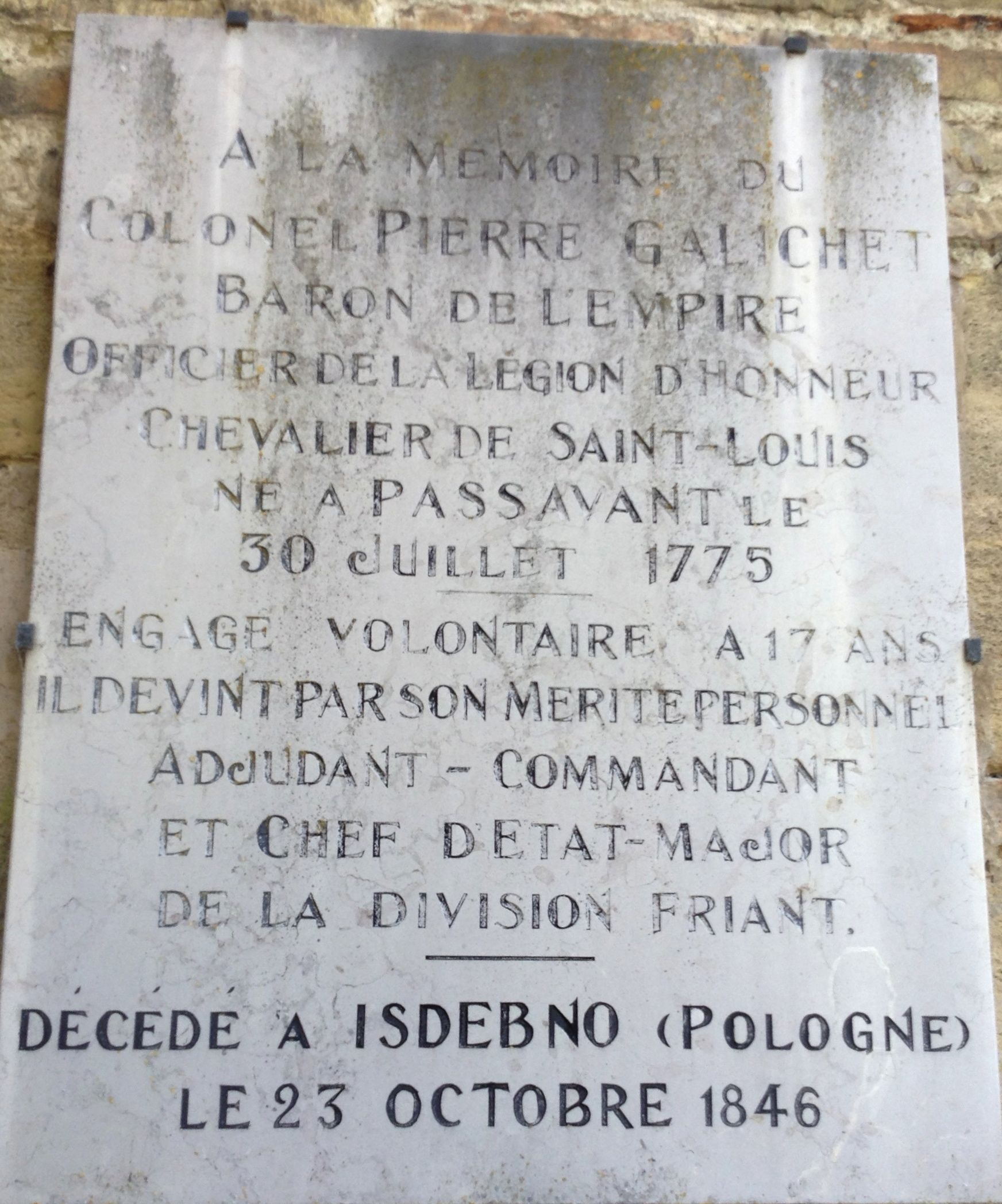 Memorial plaque to Baron Pierre Galichet in Champagne